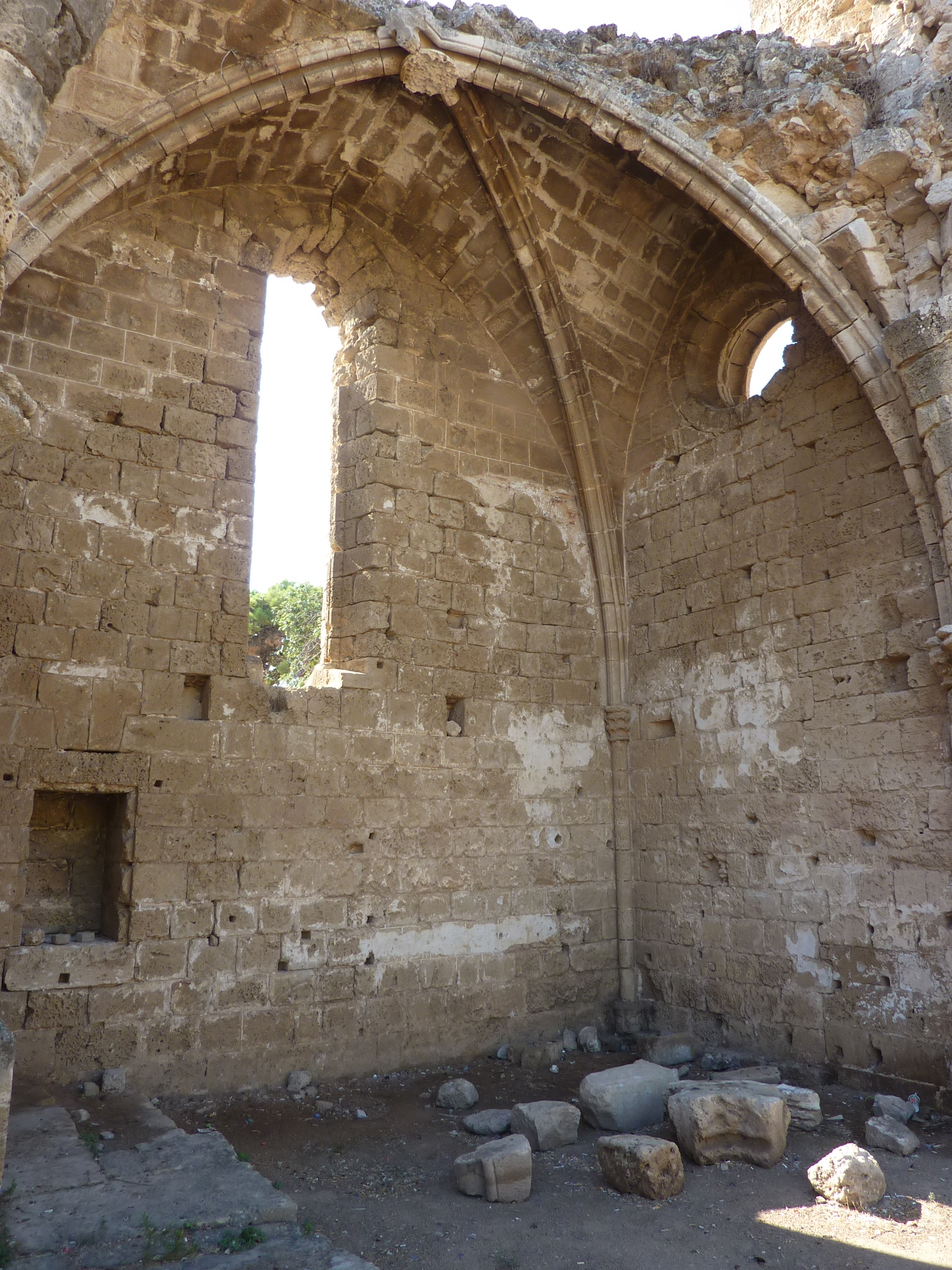 Franciscan Church, Famagusta